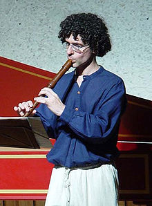 Carlos Serrano